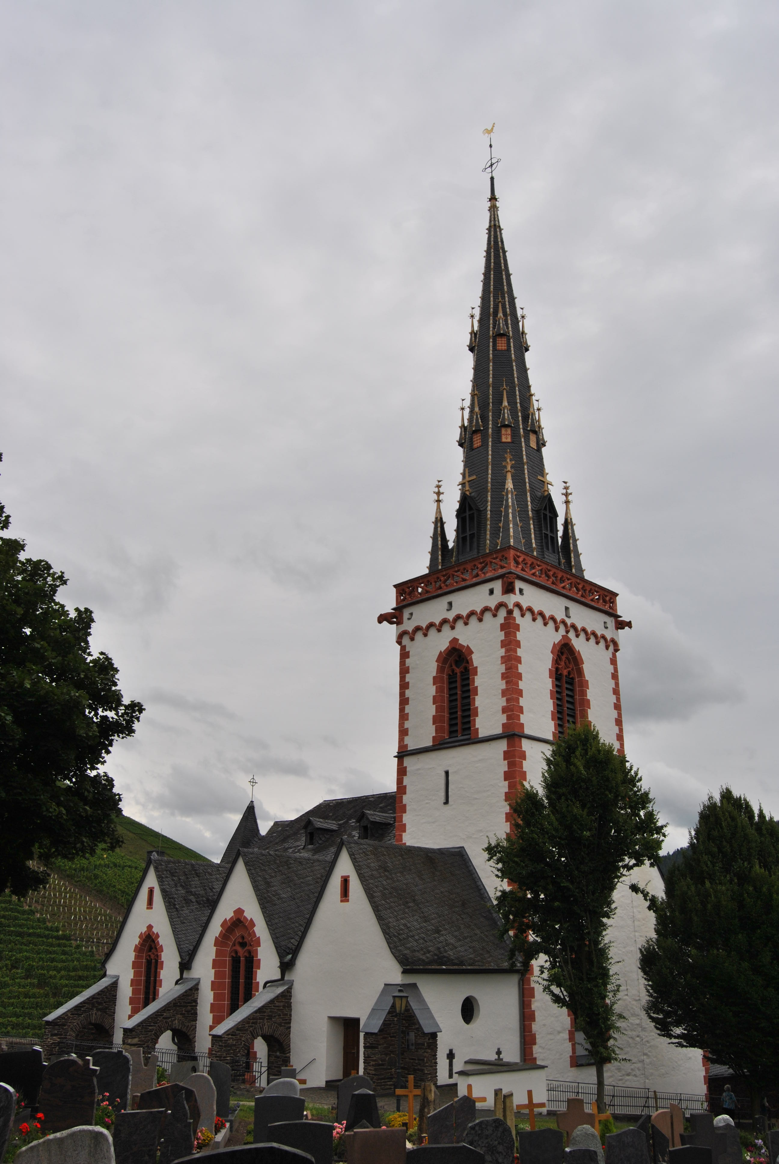 This photograph was taken with a Nikon D3000 This is a photograph of an architectural monument. Ediger-Eller, St. Martin